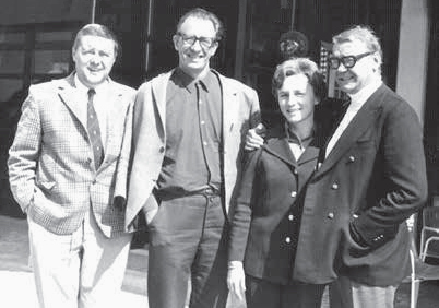 Left-right: Žarko Dolinar, Mladen Delić, Milka Babović and Boris Urbić at the 1972 Olympics